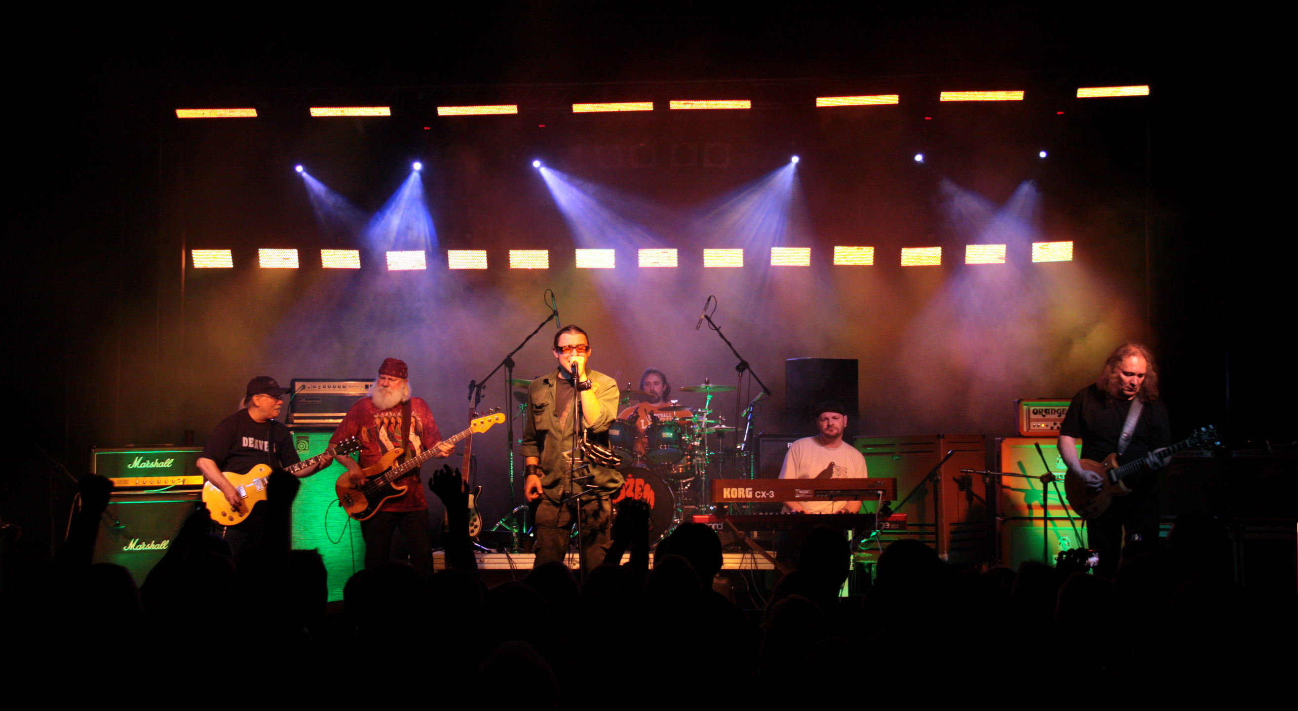 Dżem - Polish blues-rock band, concert in Busko-Zdrój, 25 april 2010 r.